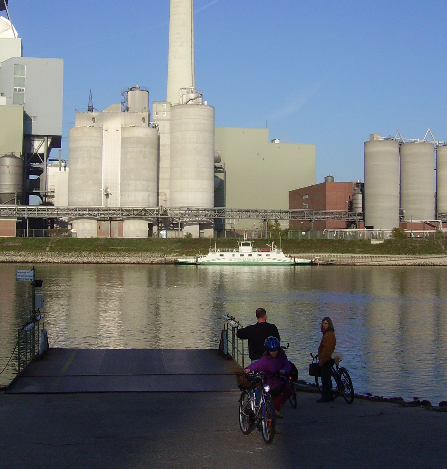 ferry between Altrip and Mannheim, Germany)